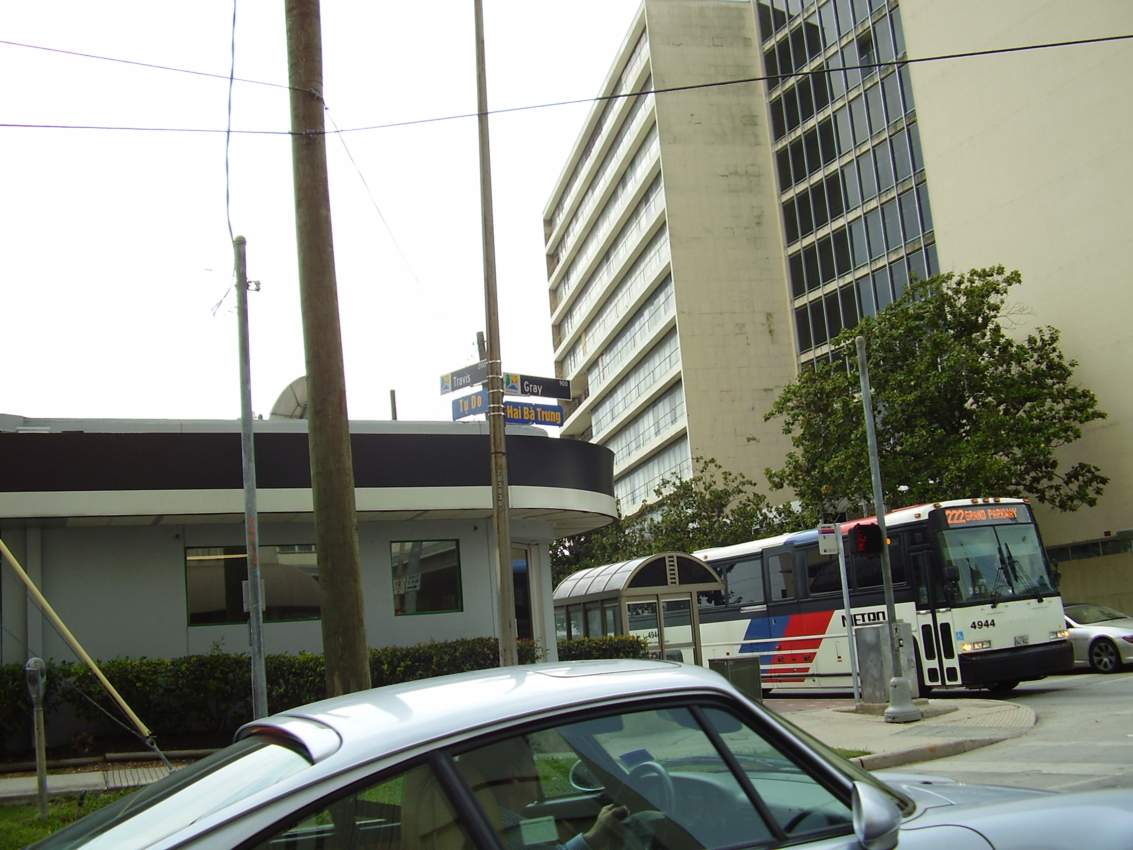 Vietnamese language street signs in Midtown Houston - The English names are "Travis" and "Gray," while the Vietnamese names are "Tự Do" and "Hai Bà Trưng"